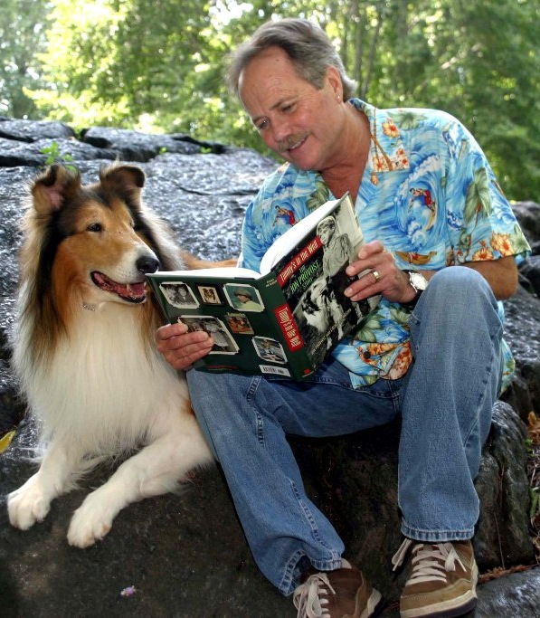 Jon Provost reads his book " Timmy in the Well " to a Rough Collie